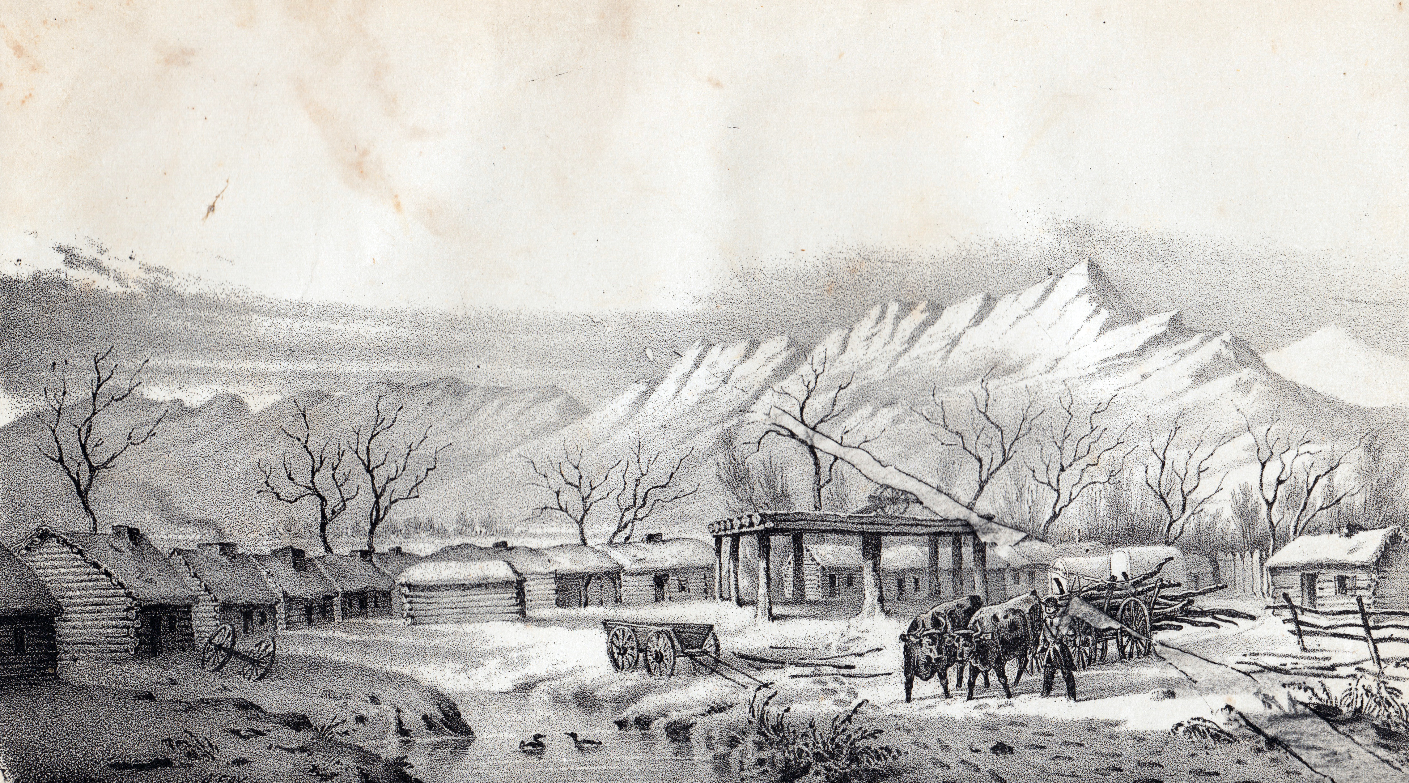 Fort Utah on the Timpanogas, Valley of the Great Salt Lake (lithograph)